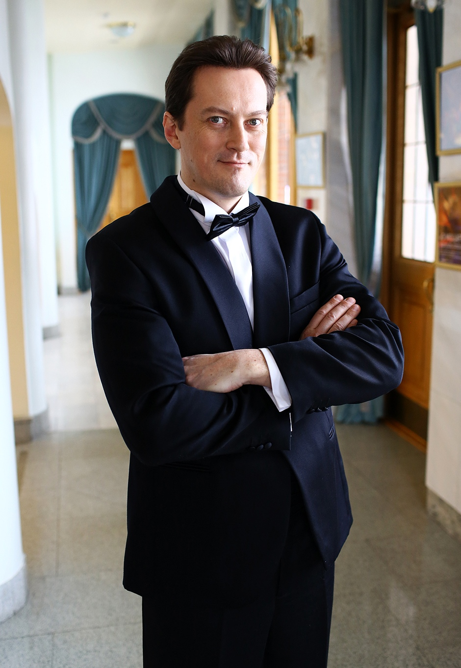 Sergey Artamonov opera singer, bass.